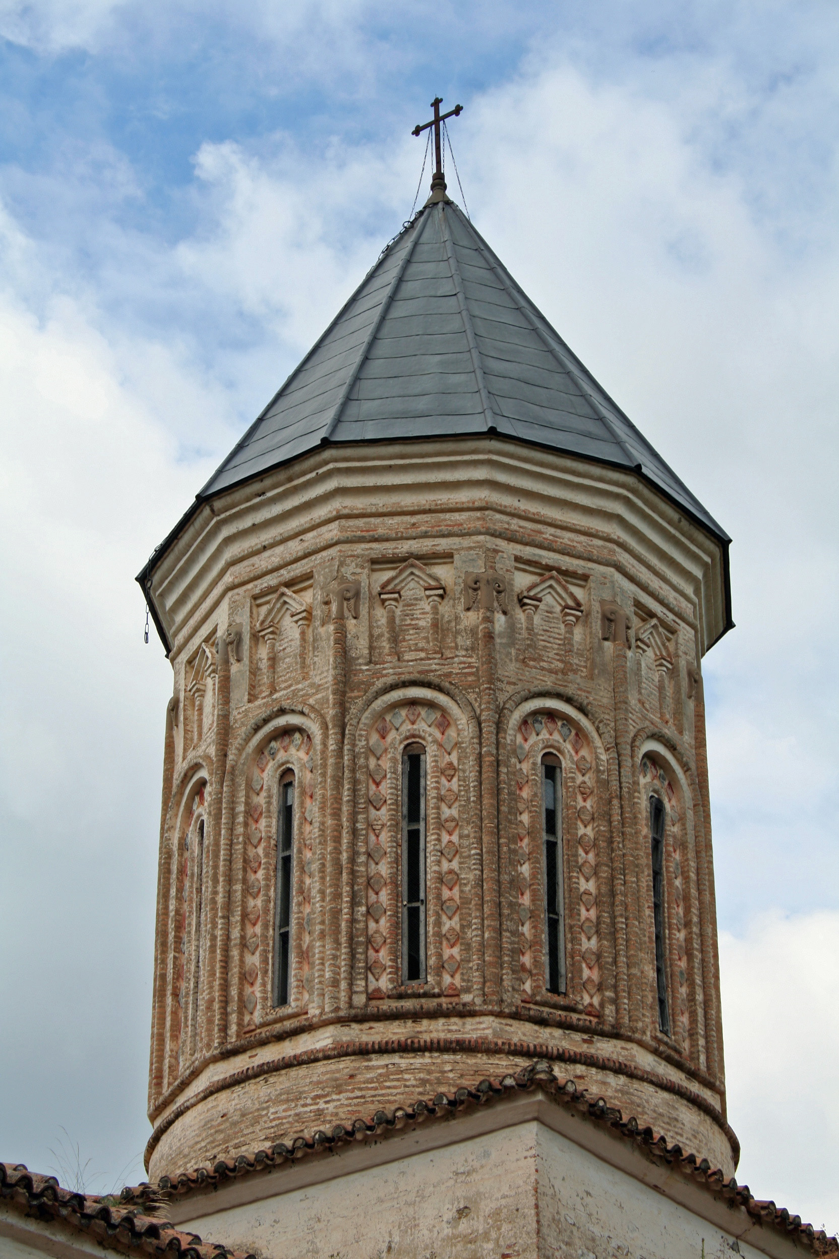 Ikalto Monastery, Transfiguration Church. Central cupola.